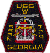 SSBN-729 crest